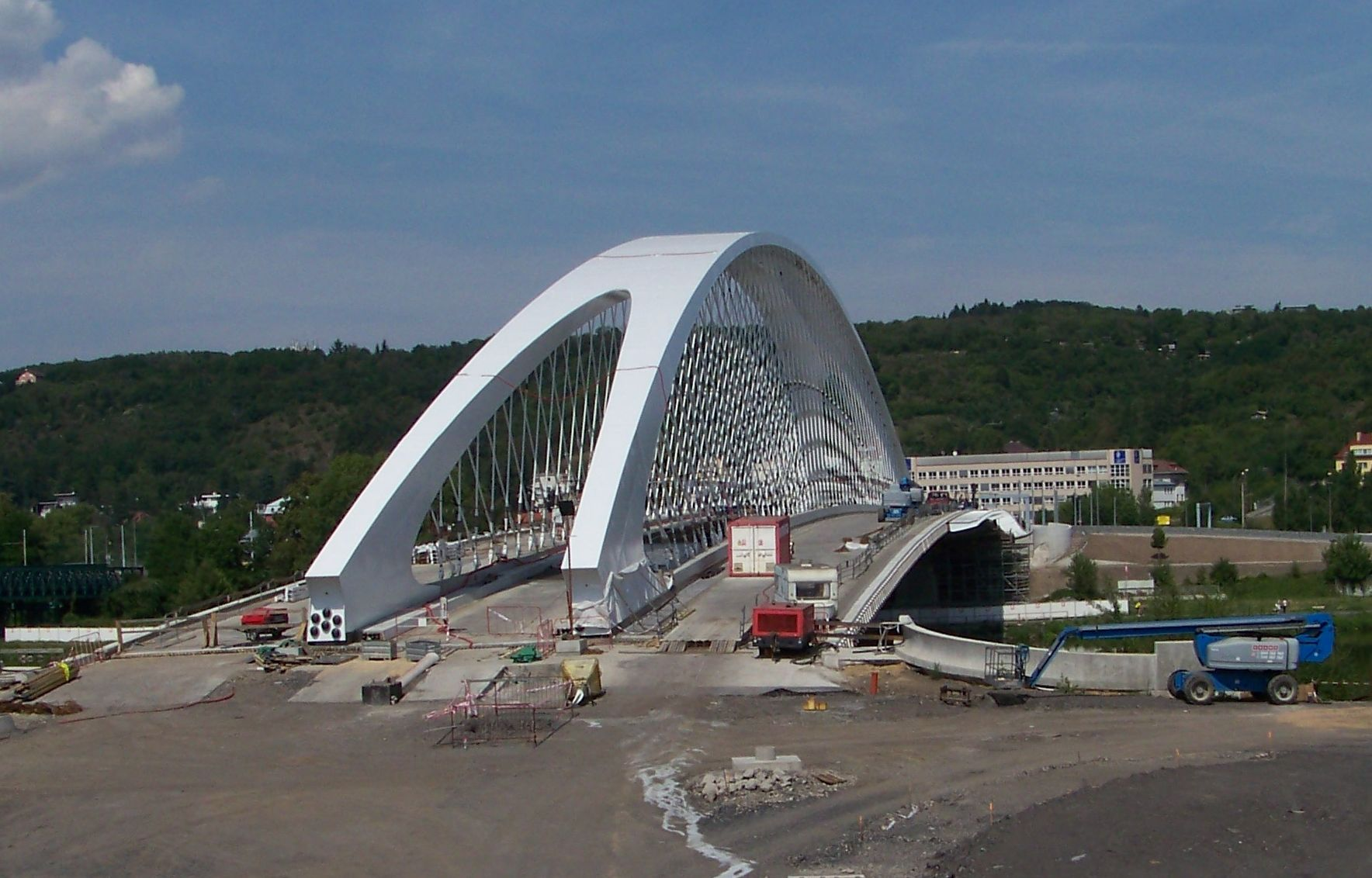 Prague-Holešovice. Trojský most (Troja Bridge) under construction. - OpenStreetMap(Info)